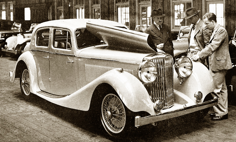 1938 SS Jaguar 2½-litre saloon being delivered to a Mr Wyatt